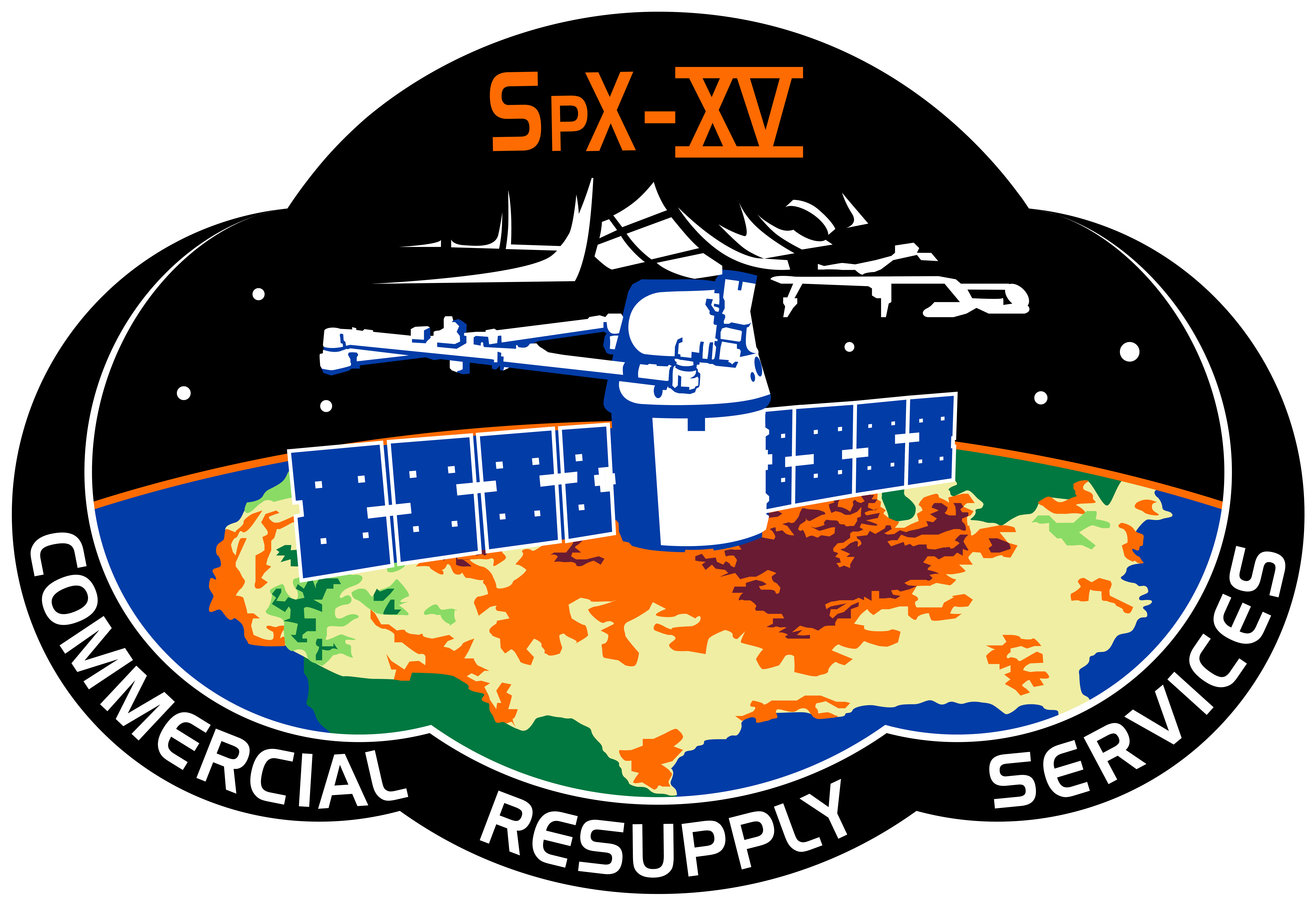 NASA's cloud-shaped insignia for SpaceX's 15th Commercial Resupply Services flight to the International Space Station.